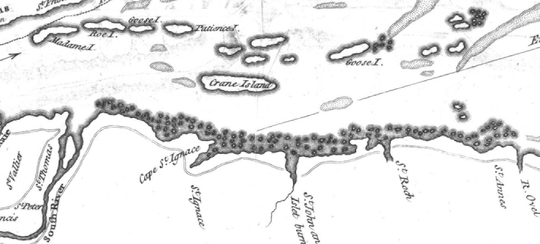 This is a detail from the source map, which is titled as follows: River St. Lawrence from Montréal to the Island of St. Barnaby... and the Island of Jeremy. This detail shows a portion of the Saint Lawrence River east of Quebec City, showing locations of note in the March 1776 Battle of Saint-Pierre: Crane Island (Île-aux-Grues), St. Anne's (St.-Anne-de-la-Pocatiere), St. Thomas, and St. Peter (Saint-Pierre).